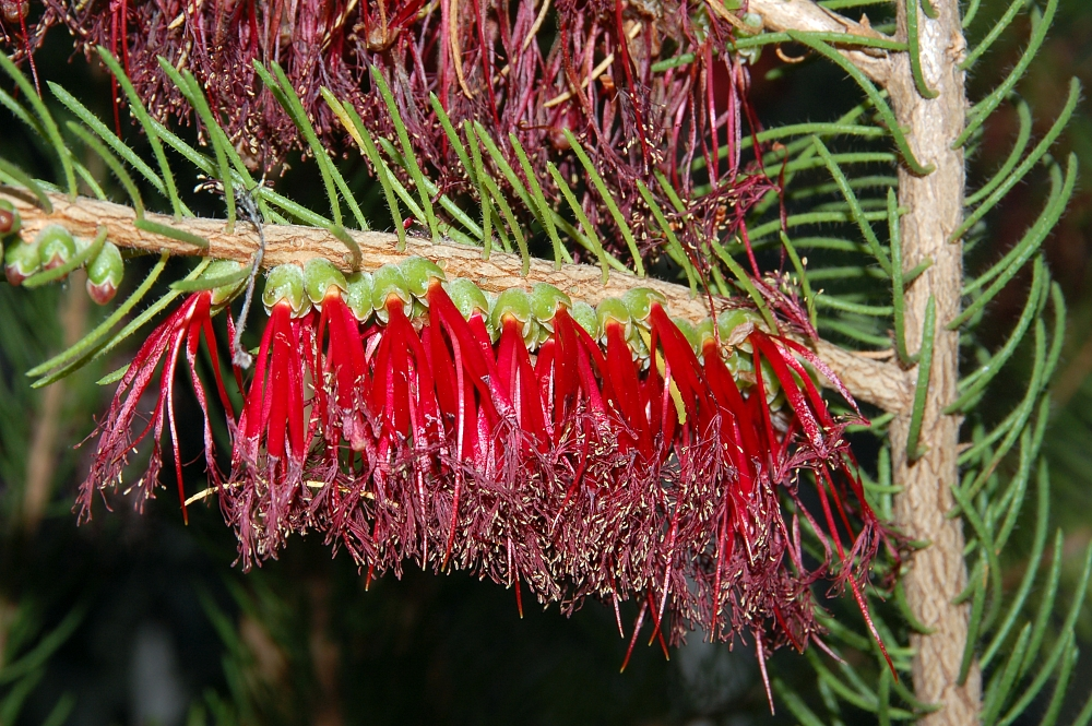 Calothamnus quadrifidus, known from West-Australia, photographed in the Botanical Garden Berlin, Germany